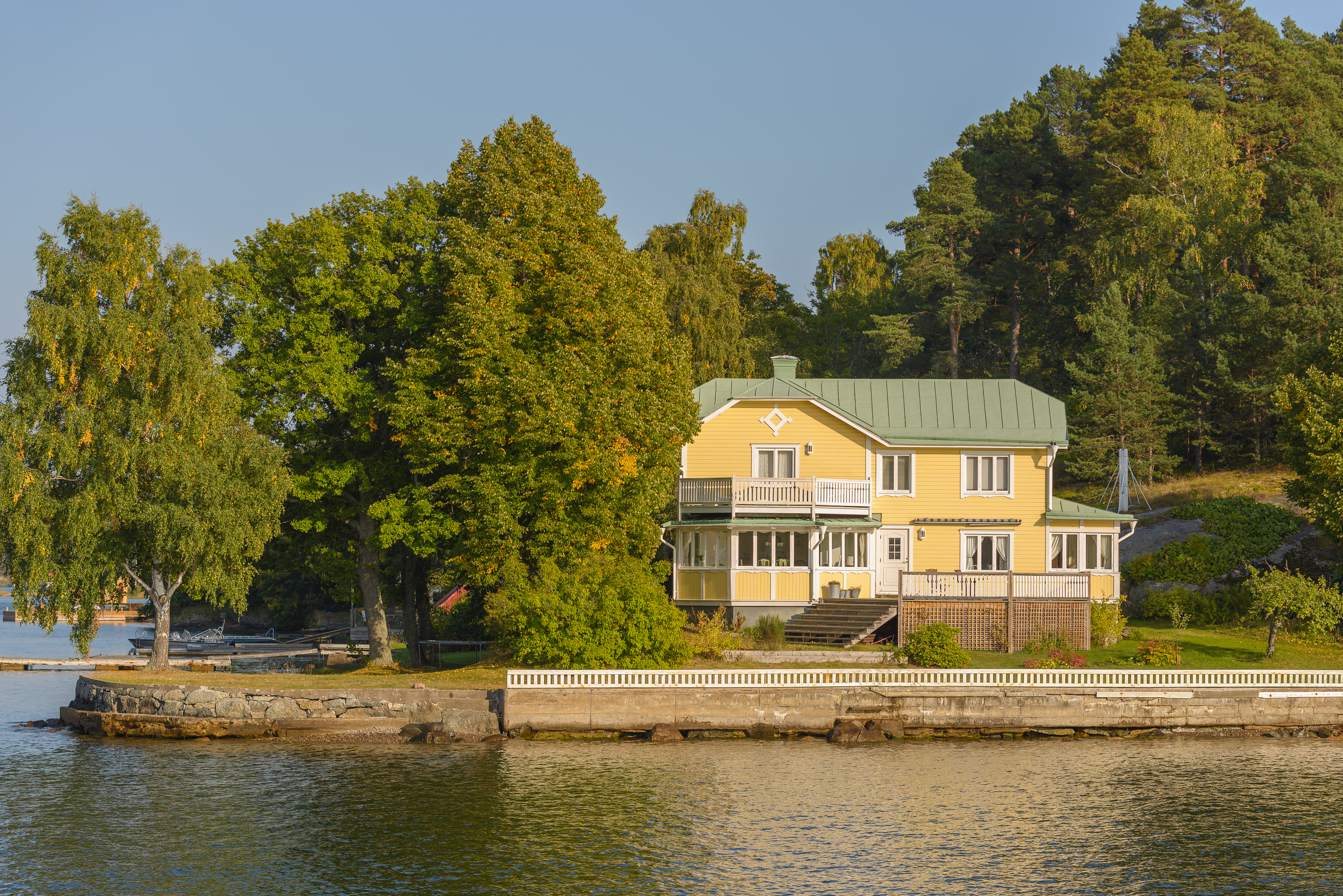 Summer house near Höganäs pier on the island Tynningö, outside Vaxholm in Stockholm archipelago.